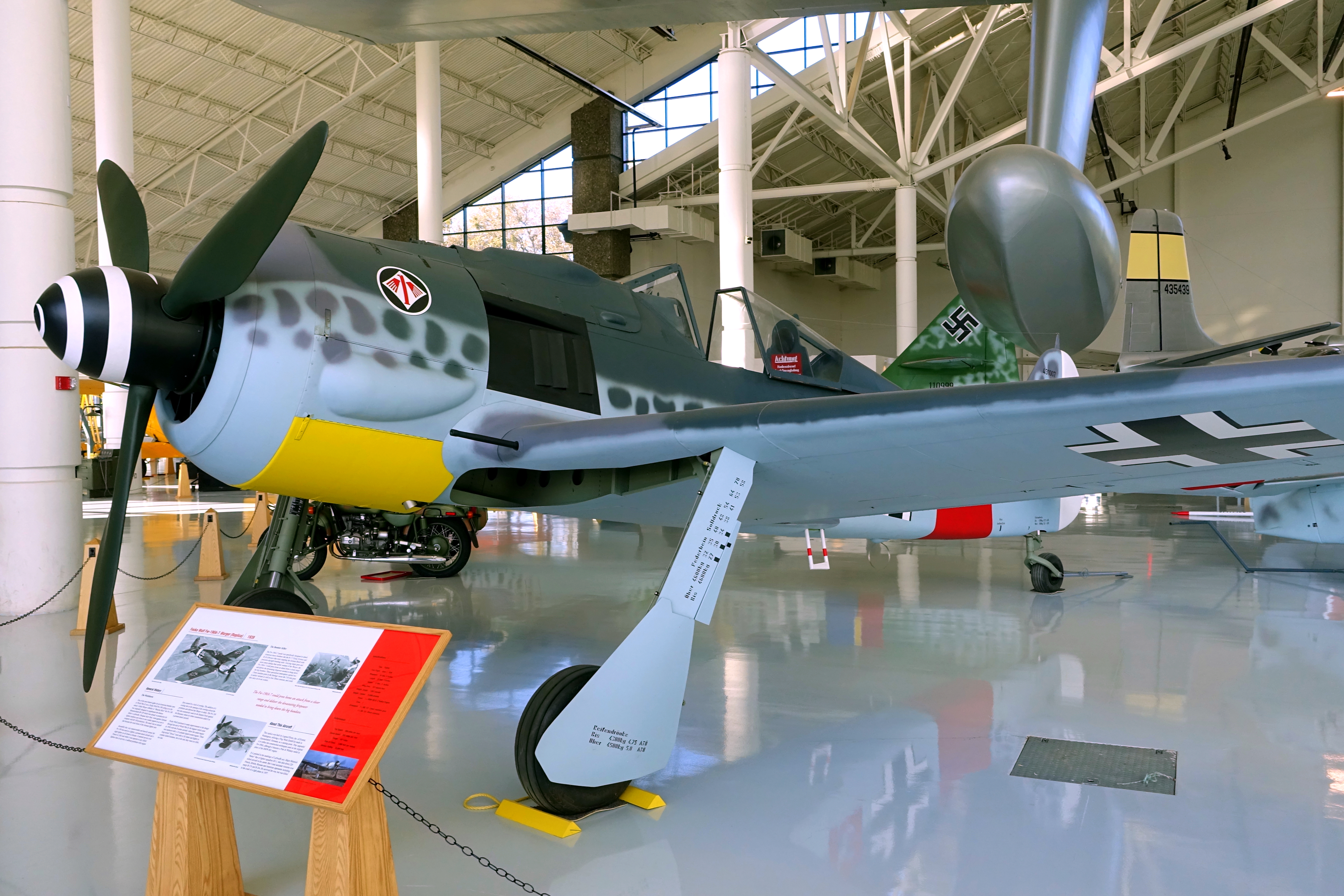 Exhibit at the Evergreen Aviation & Space Museum - McMinnville, Oregon, USA.